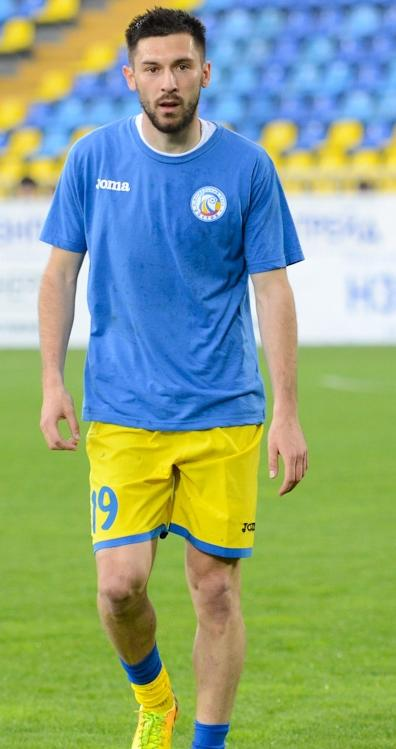 Hrvoje Milić playing for FC Rostov.